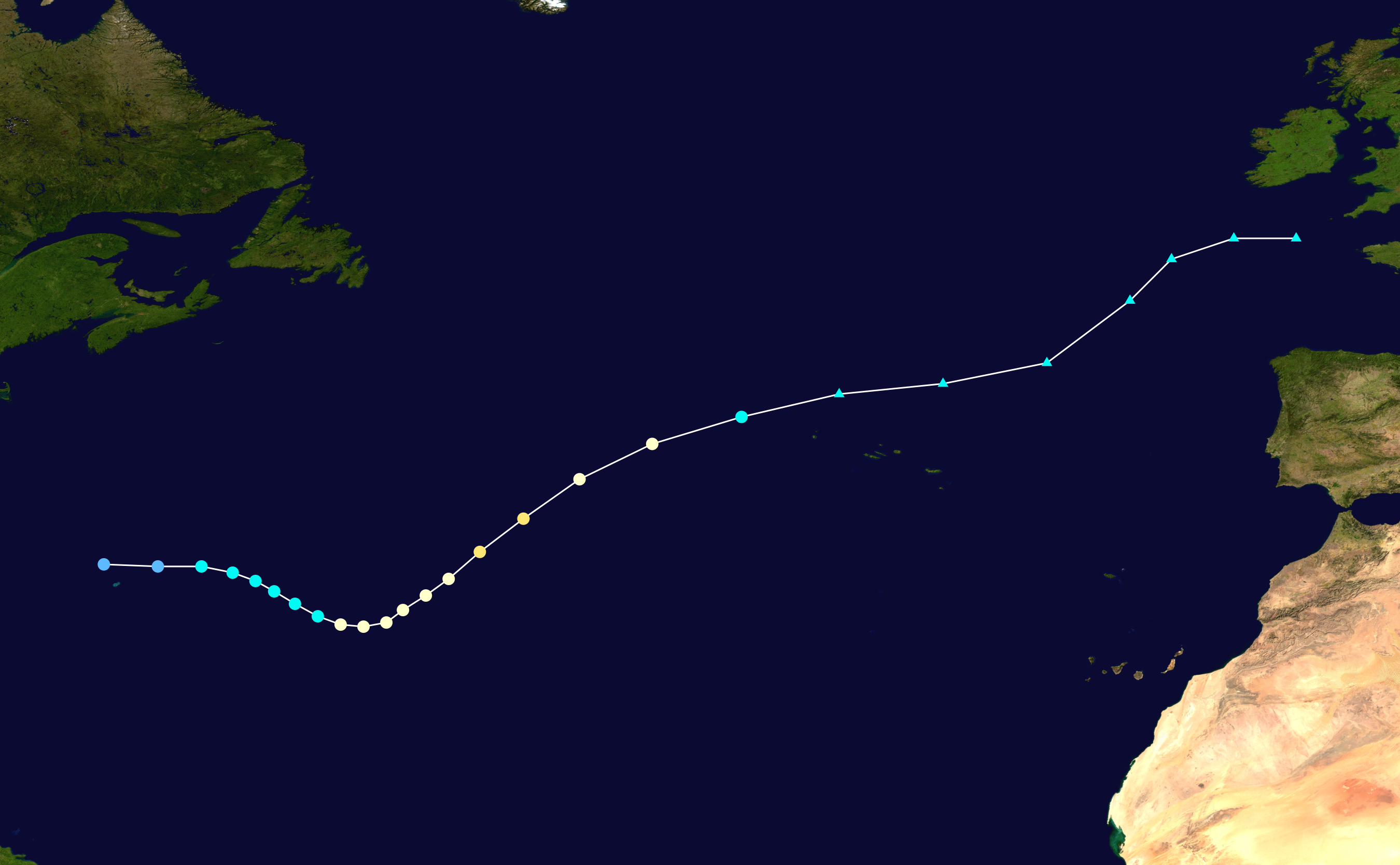 Track map of Hurricane Karl of the 1998 Atlantic hurricane season. The points show the location of the storm at 6-hour intervals. The colour represents the storm's maximum sustained wind speeds as classified in the Saffir–Simpson scale (see below), and the shape of the data points represent the nature of the storm, according to the legend below. Saffir–Simpson scale Tropical depression≤38 mph≤62 km/h Category 3111–129 mph178–208 km/h Tropical storm39–73 mph63–118 km/h Category 4130–156 mph209–251 km/h Category 174–95 mph119–153 km/h Category 5≥157 mph≥252 km/h Category 296–110 mph154–177 km/h Unknown Storm type Tropical cyclone Subtropical cyclone Extratropical cyclone / Remnant low / Tropical disturbance / Monsoon depression